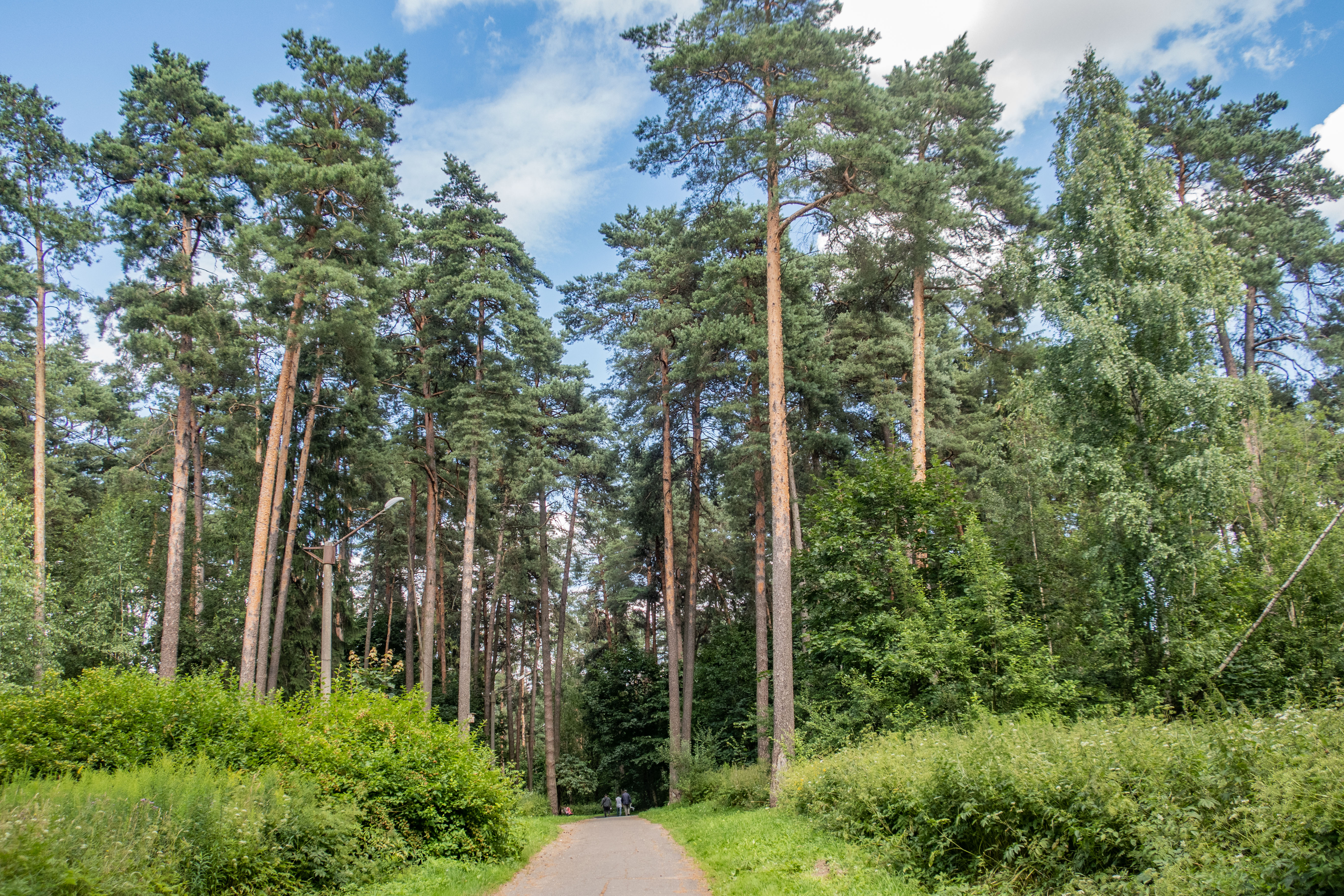 Sakaliny (Falcon's) local biological reserve. Minsk district, Belarus